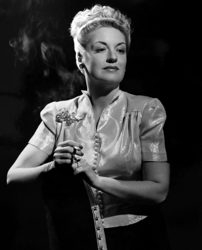 A promotional shot of actress Lee Patrick